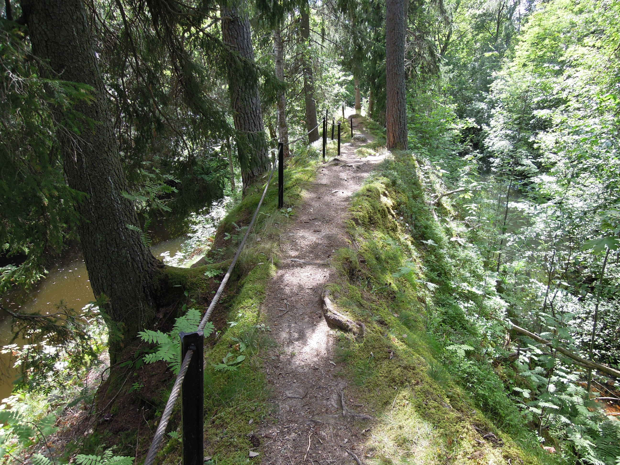 18 open cast mines of the early middle ages. Svinryggen (Pig back), Kärrgruvan, Norberg, Sweden